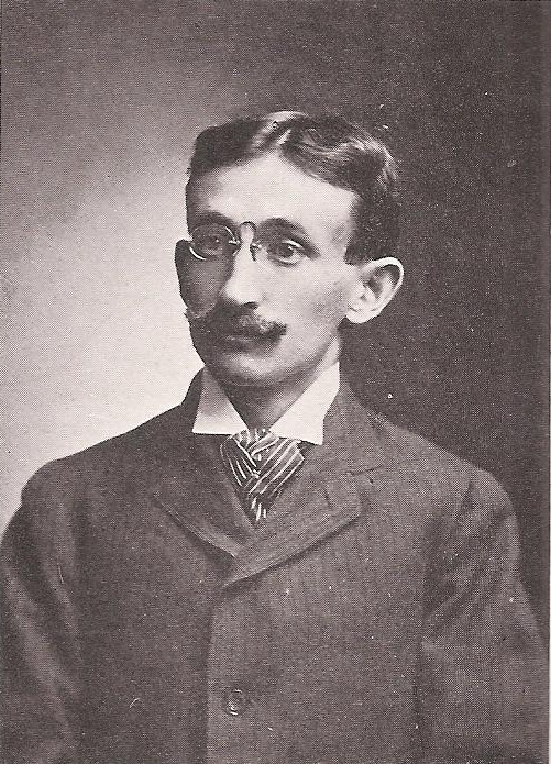 Photograph of Hugo Paul Thieme